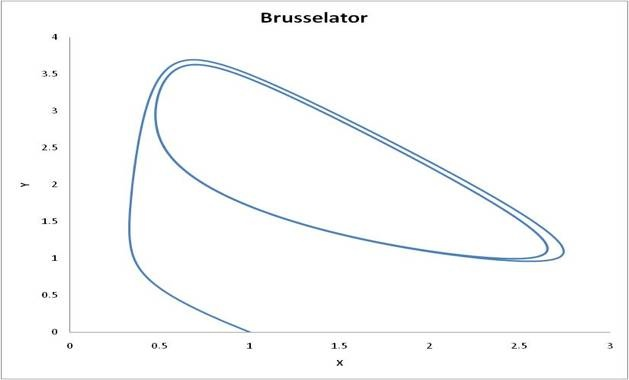 Plot of Autocatalytic reaction